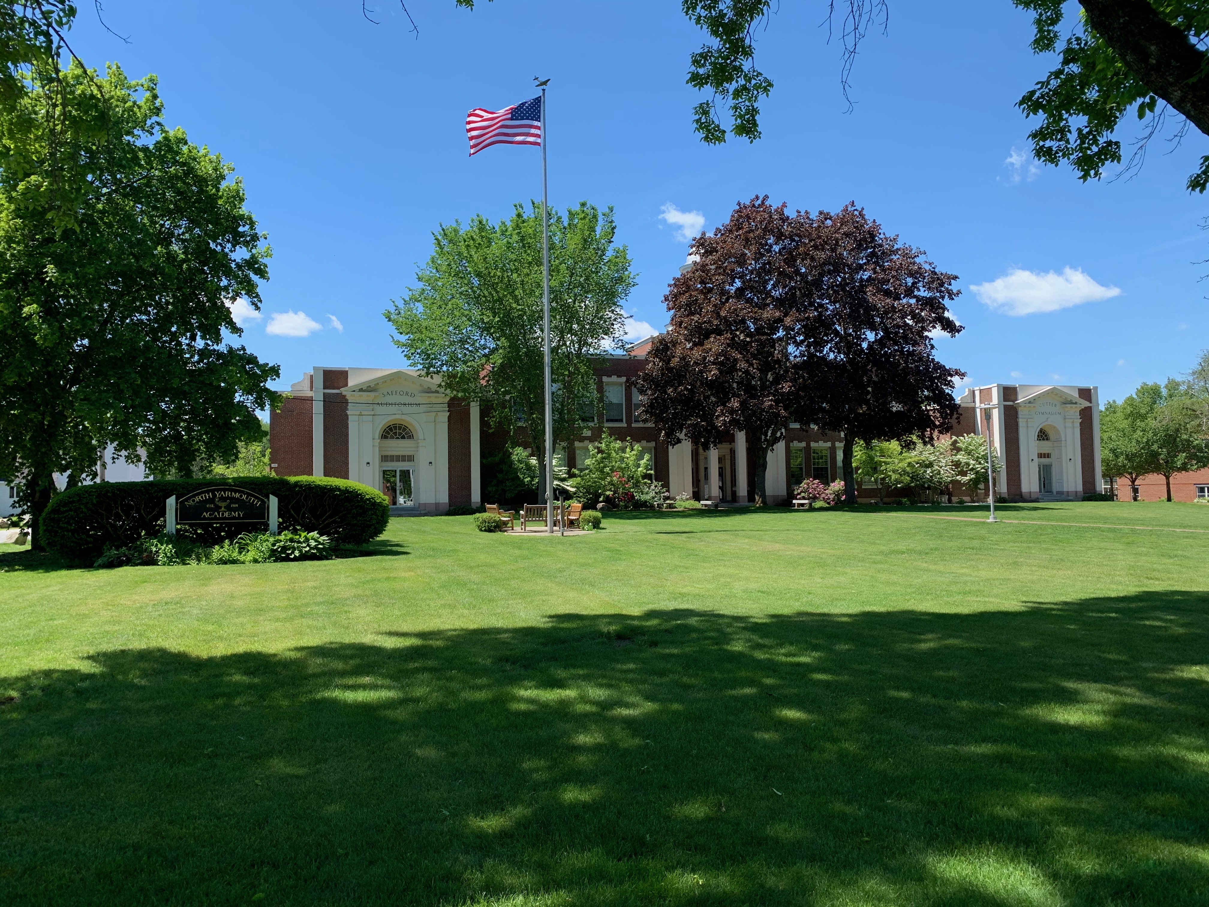 North Yarmouth Academy, June 2019.